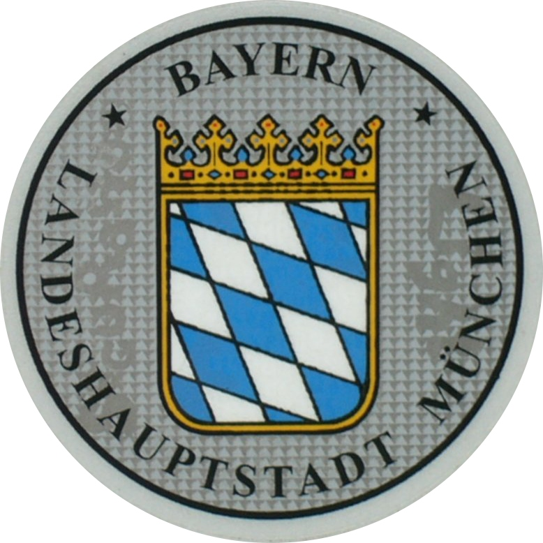 Adhesive seal of a German motor vehicle registration plate: state capital Munich, Bavaria